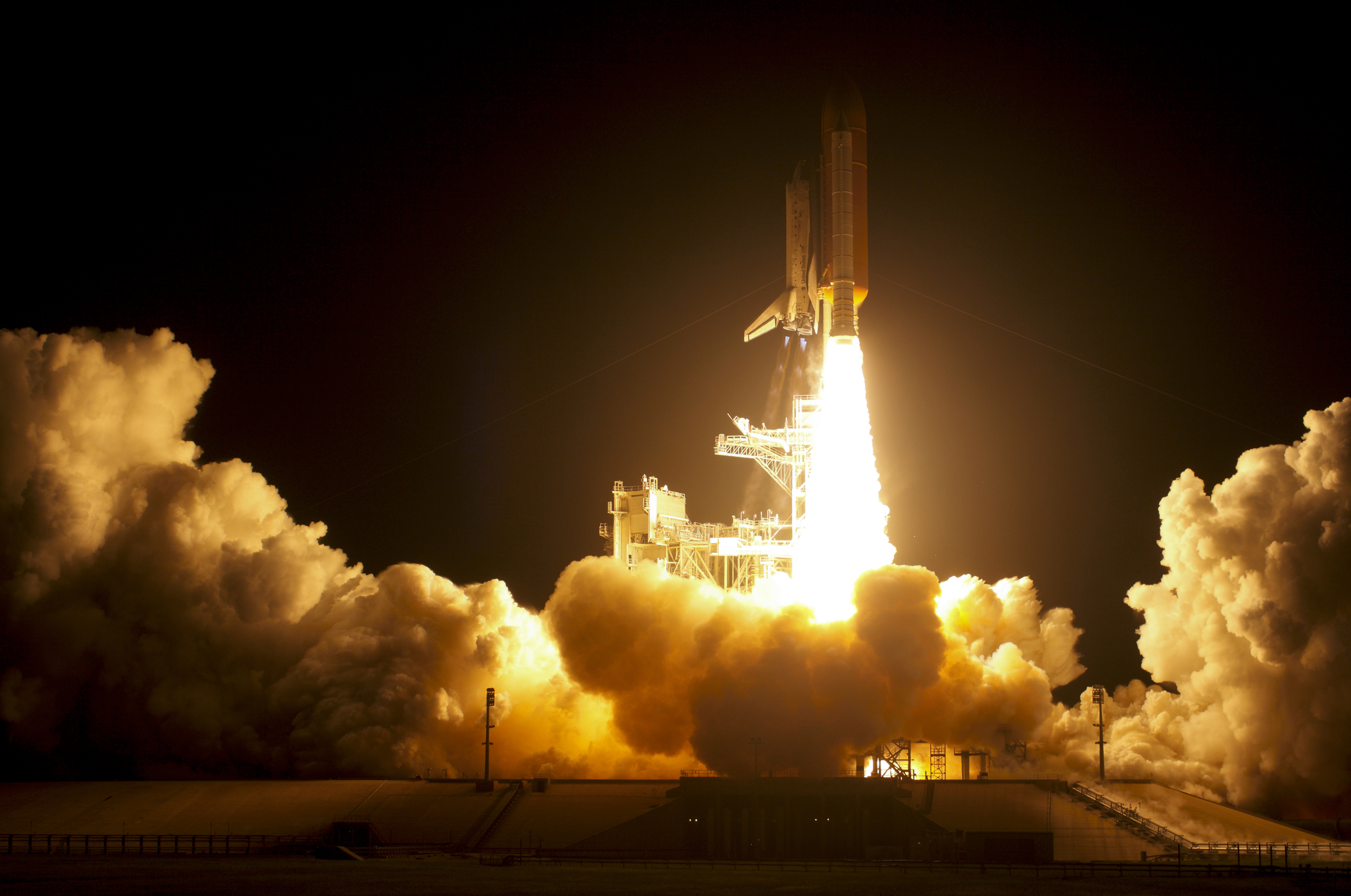 CAPE CANAVERAL, Fla. – Billows of smoke and steam rise flow across Launch Pad 39A at NASA's Kennedy Space Center in Florida as space shuttle Discovery hurtles toward space on the STS-128 mission. Liftoff from Launch Pad 39A was on time at 11:59 p.m. EDT. The first launch attempt on Aug. 24 was postponed due to unfavorable weather conditions. The second attempt on Aug. 25 also was postponed due to an issue with a valve in space shuttle Discovery's main propulsion system. The STS-128 mission is the 30th International Space Station assembly flight and the 128th space shuttle flight. The 13-day mission will deliver more than 7 tons of supplies, science racks and equipment, as well as additional environmental hardware to sustain six crew members on the International Space Station. The equipment includes a freezer to store research samples, a new sleeping compartment and the COLBERT treadmill.